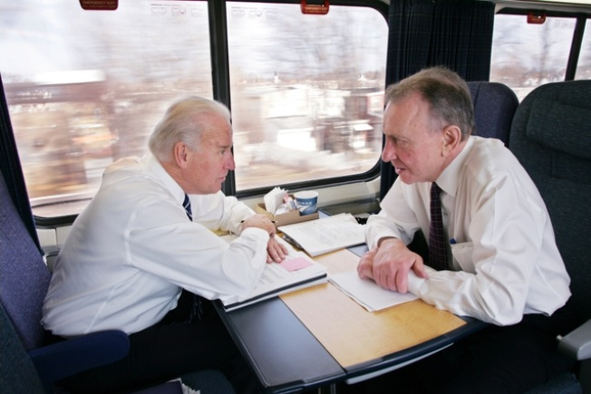 Vice President Joe Biden and Senator Arlen Specter talking as they ride the train to Philadelphia along with members of the Middle Class Task Force on February 27, 2009.中文（中国大陆）: 2009年2月27日，美国副总统乔·拜登和联邦参议员阿伦·斯佩克斯在前往费城的火车上交谈